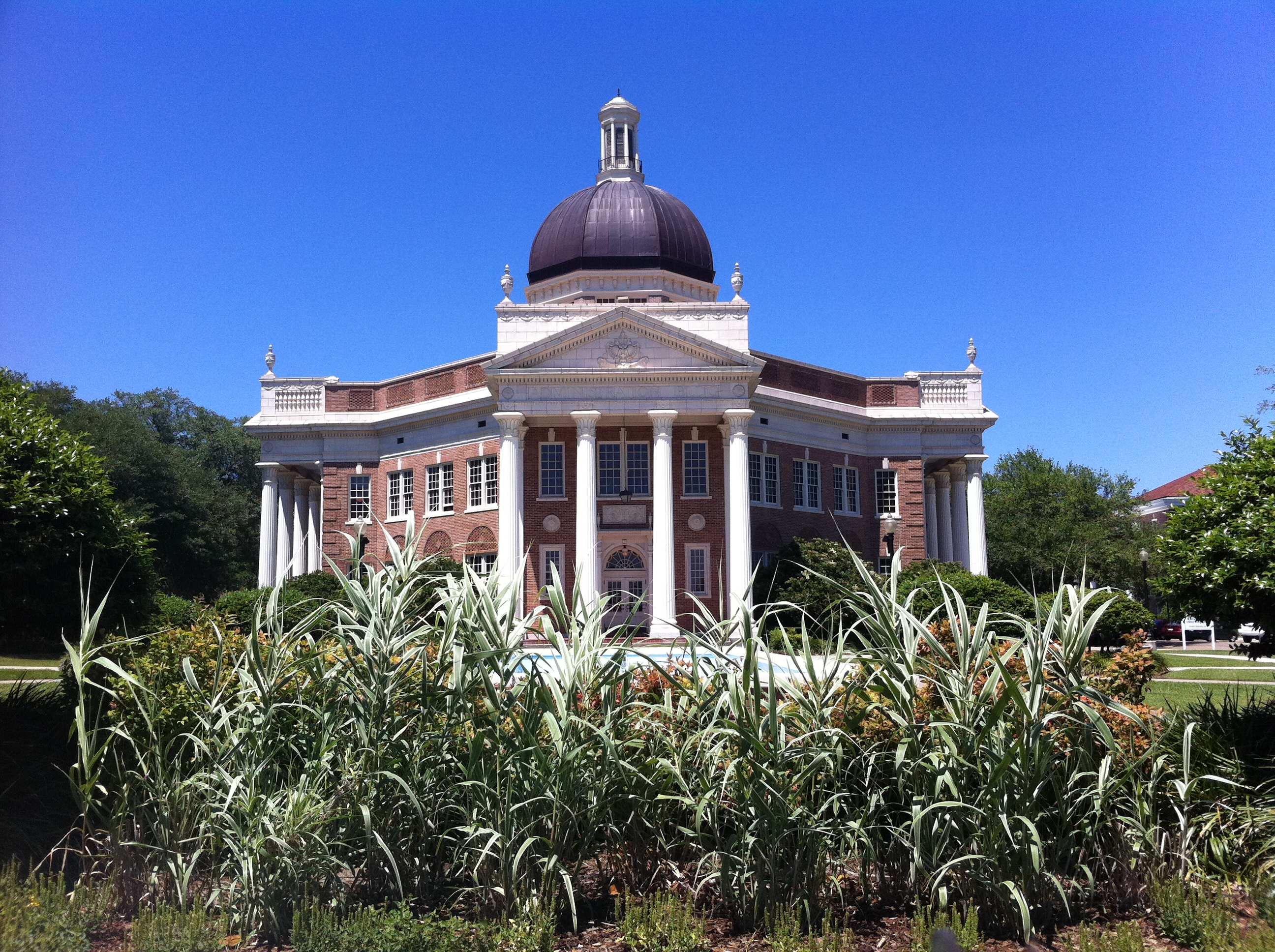 The Aubrey K. Lucas Administration Building on the campus of the University of Southern Mississippi in Hattiesburg, Mississippi. The building is part of the University of Southern Mississippi Historic District, listed on the National Register of Historic Places.